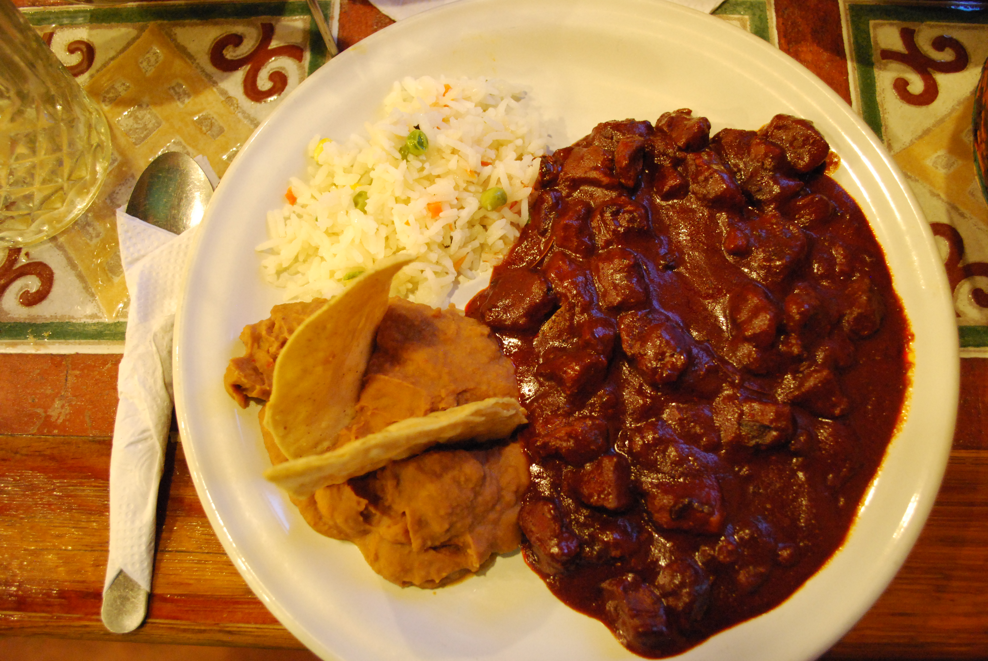 Asado de Boda